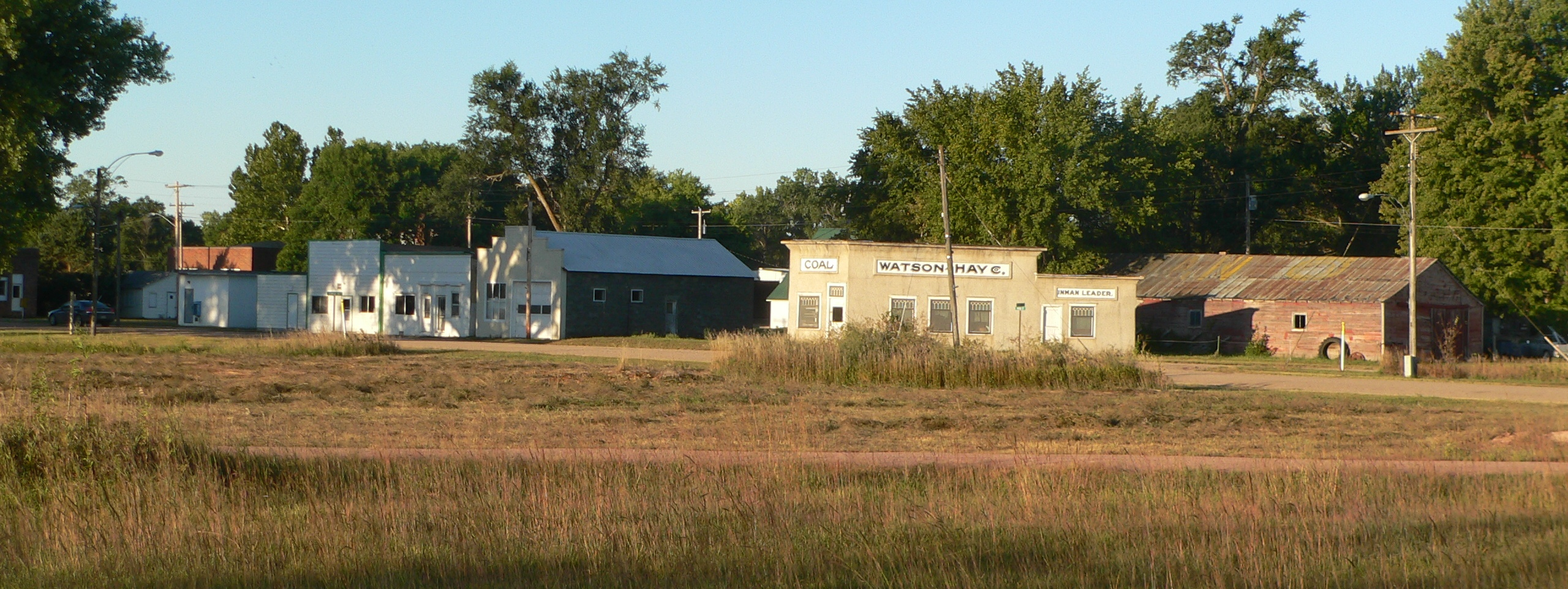 Inman, Nebraska; camera is facing southwest from U.S. Highway 20/275.